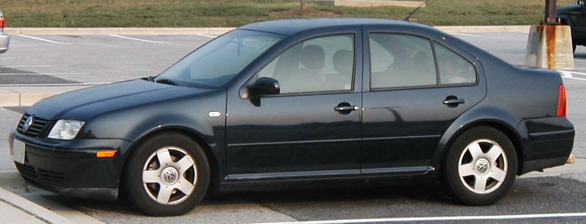 1998-2005 Volkswagen Jetta sedan photographed in USA.